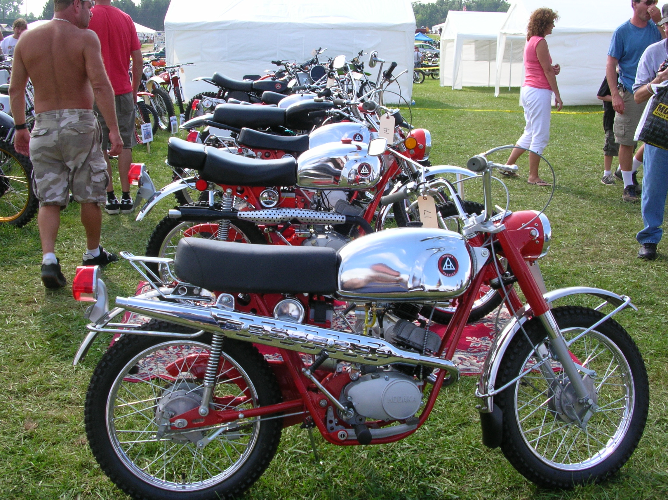 Summary: A group of Hodaka motorcycles at the July 28, 2006 AMA Vintage Motorcycle Days in Lexington, OH Author: Jamie Aaron, , Not copyrighted, Freely Distributed, Made by my own Digital Camera